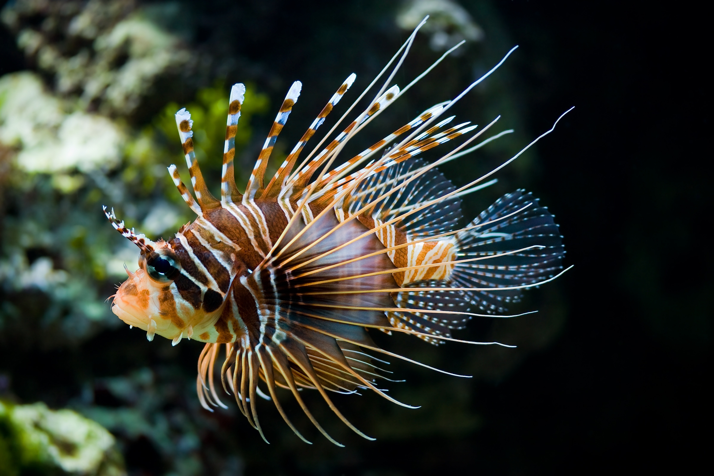 Antennata Lionfish, picture taken in Zoo Schönbrunn, Vienna, Austria.